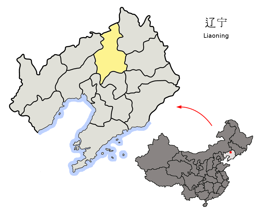 Location of Shenyang Prefecture (yellow) within Liaoning Province of China Map drawn in november 2007 using various sources, mainly : Liaoning Province administrative regions GIS data: 1:1M, County level, 1990 Liaoning Counties map from